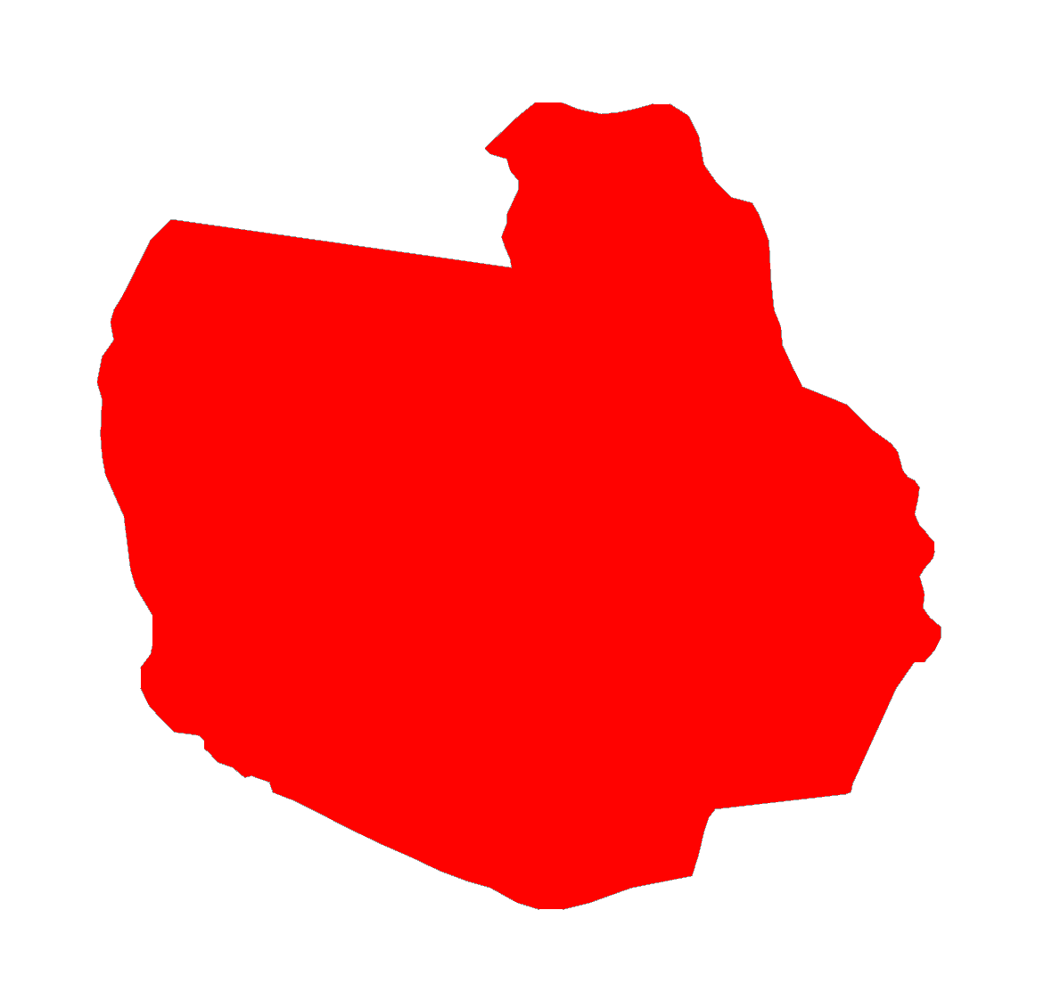 neighborhood/district of Santa Maria, Rio Grande do Sul